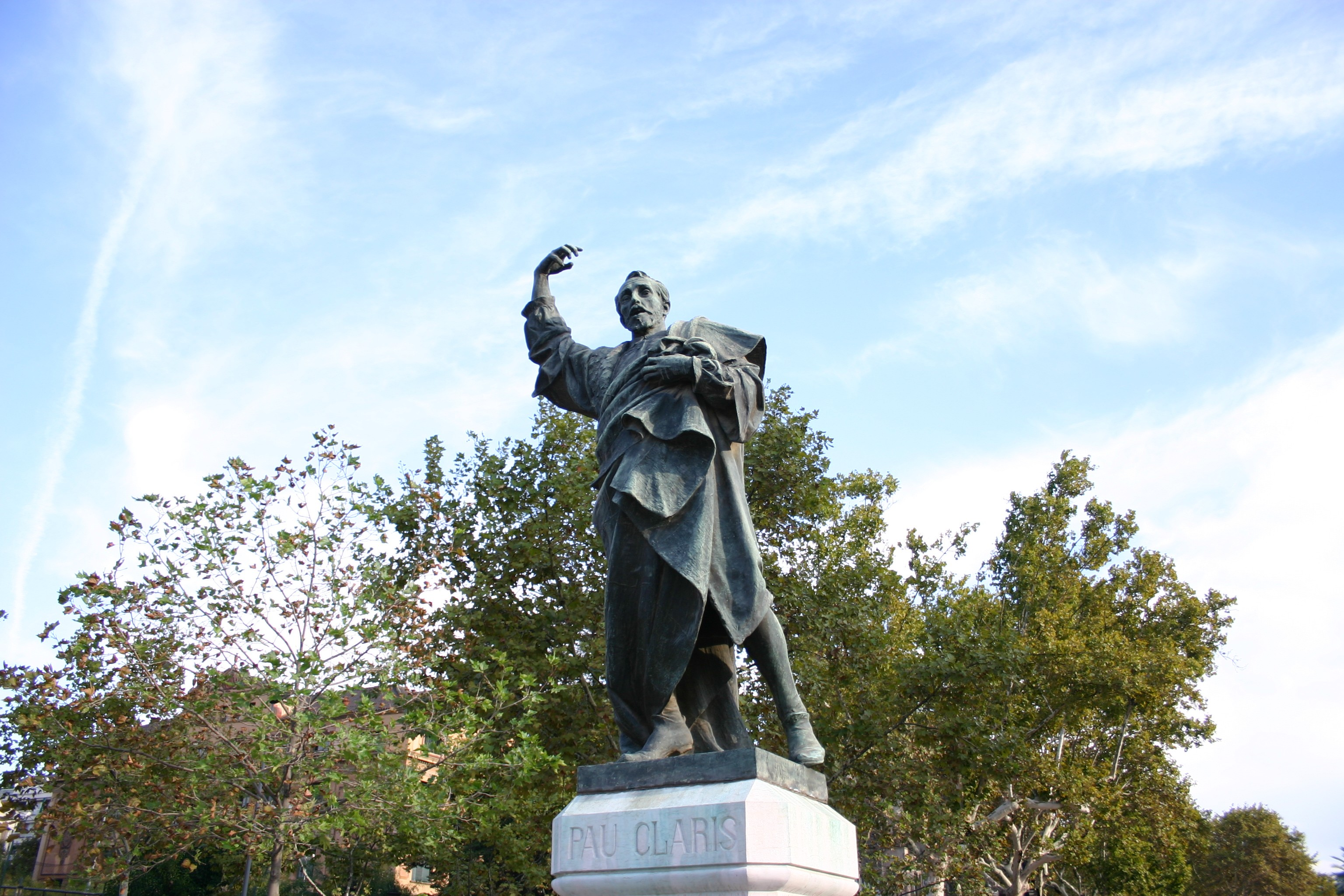 On january 16, 1641, proclaimed the Catalan Republic under the protection of France. [1